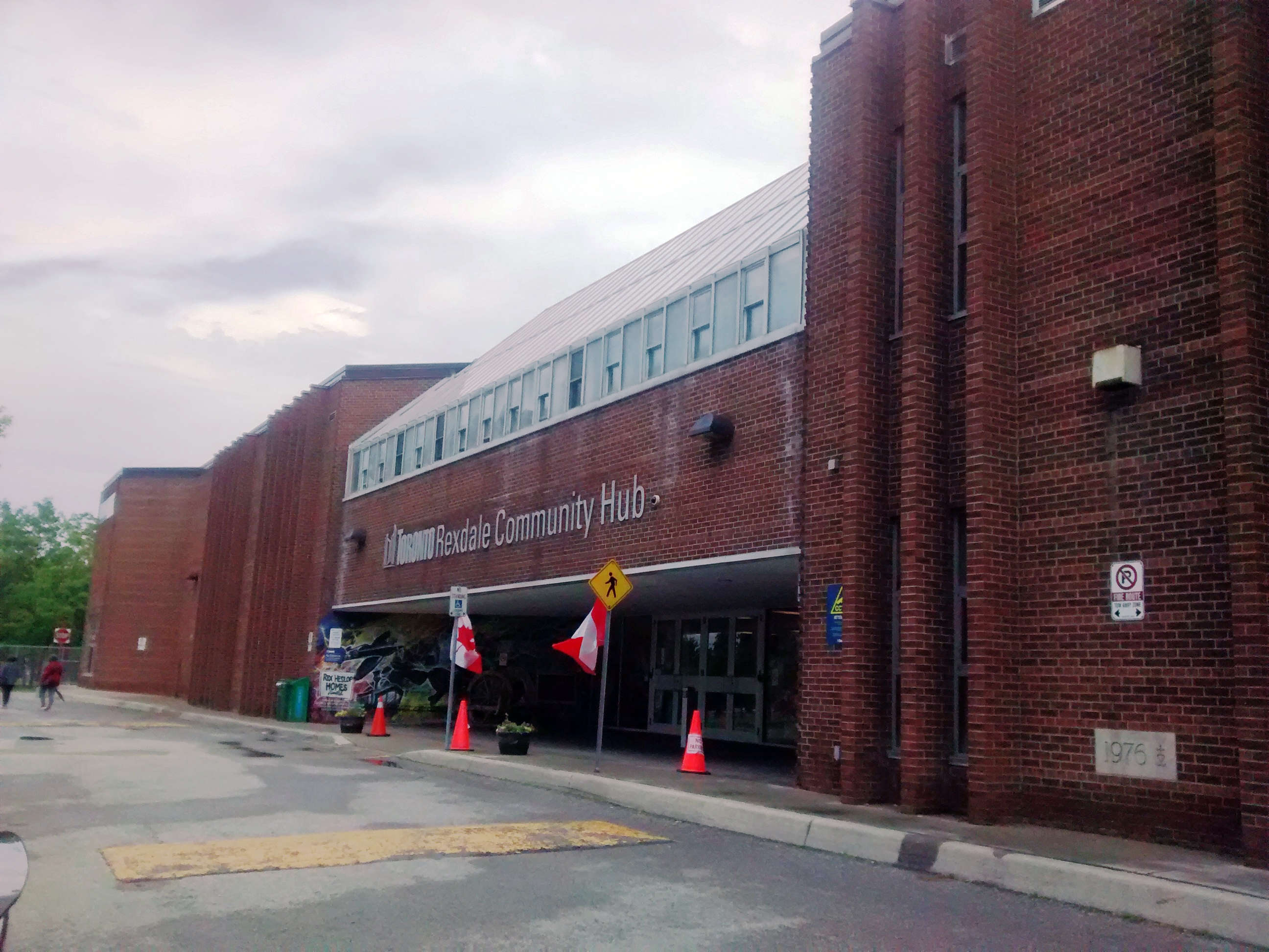 The old campus of Father Henry Carr Catholic Secondary School on Panorama Ct. In 2009, the Toronto Catholic District School Board sold the building to the City of Toronto to be used as a community hub.